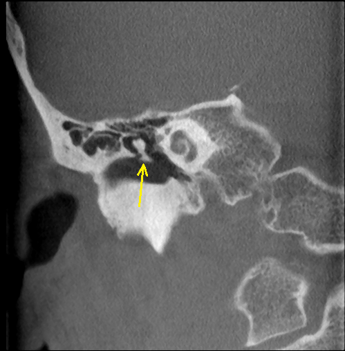 Coronal Section of right Tempoporal bone. A yellow arrow shows a malleus.